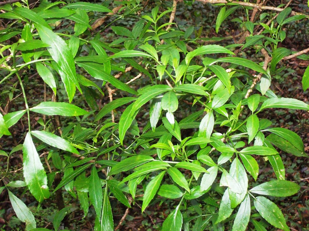 Sambucus australasica, an indigenous plant; labeled at Mount Tomah Botanic Gardens, Australia